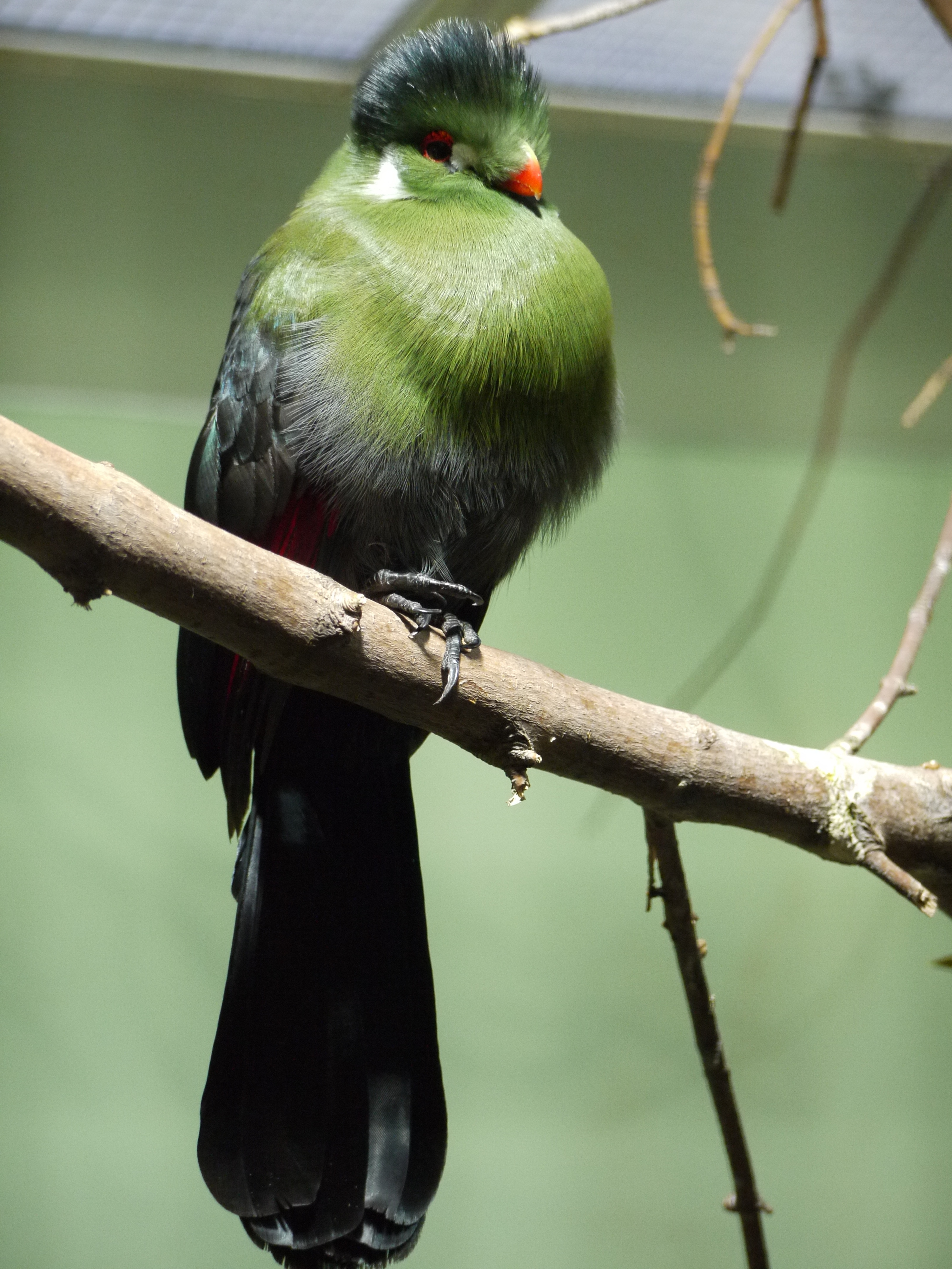 Tauraco leucotis in Berlin zoo.